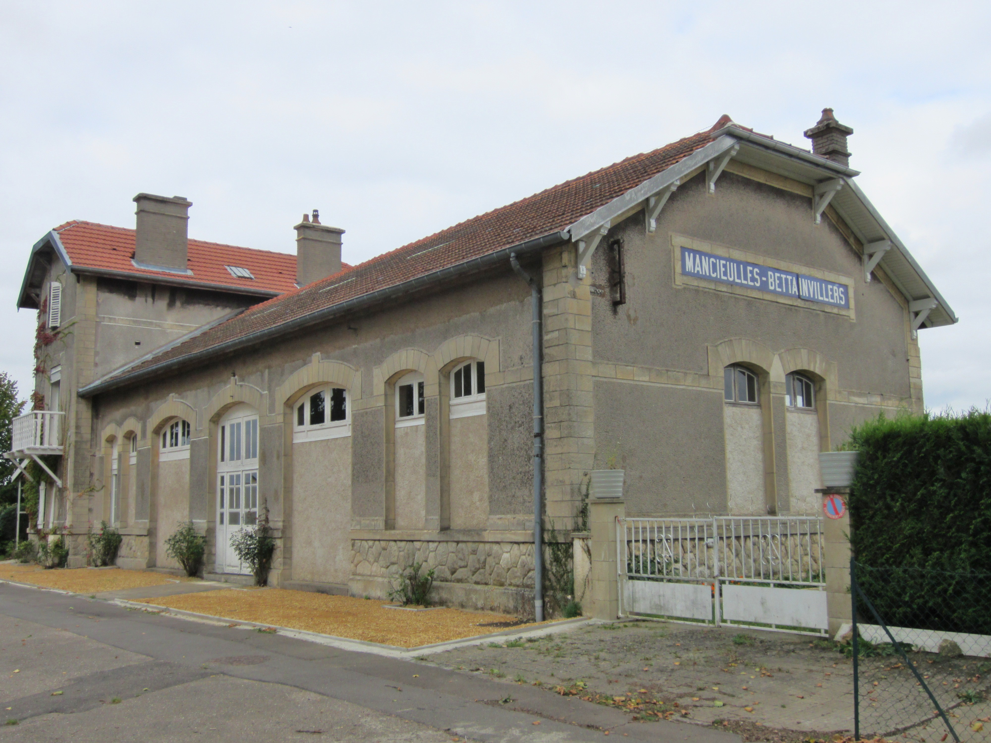 Description gare Mancieulles Date21 September 2011Sourcemon appareil photoAuthorAimelaimePermission(Reusing this file) gare Mancieulles